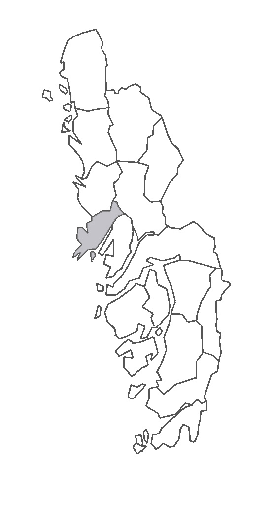 Map describing the location of Sotenäs Hundred in Bohuslän Province, Sweden.